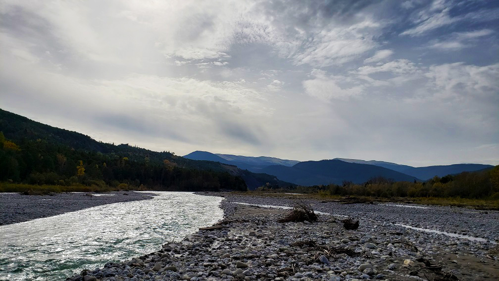 Le Verdon en amont de Saint-André-les-Alpes. Avant de recevoir les eaux de l'Issole.